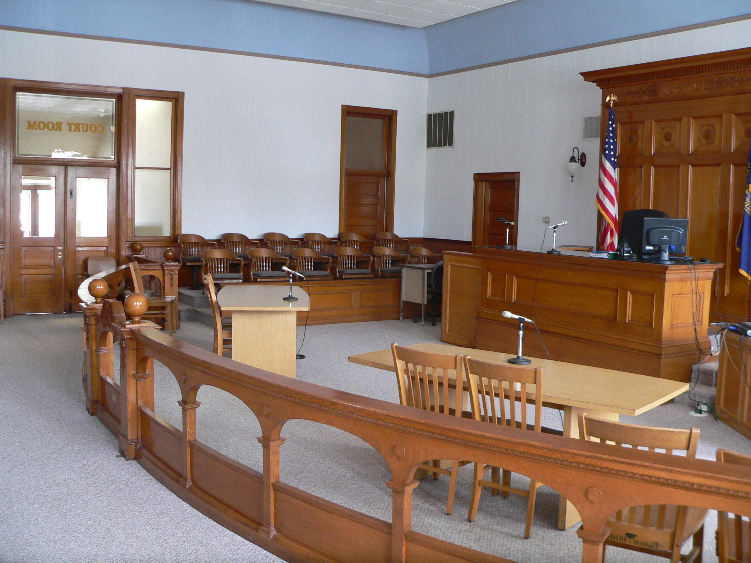 Courtroom in Wayne County Courthouse in Wayne, Nebraska. The courthouse was designed in Richardsonian Romanesque style by the architectural firm of Orff & Guilbert, and was built in 1899. It is listed in the National Register of Historic Places.